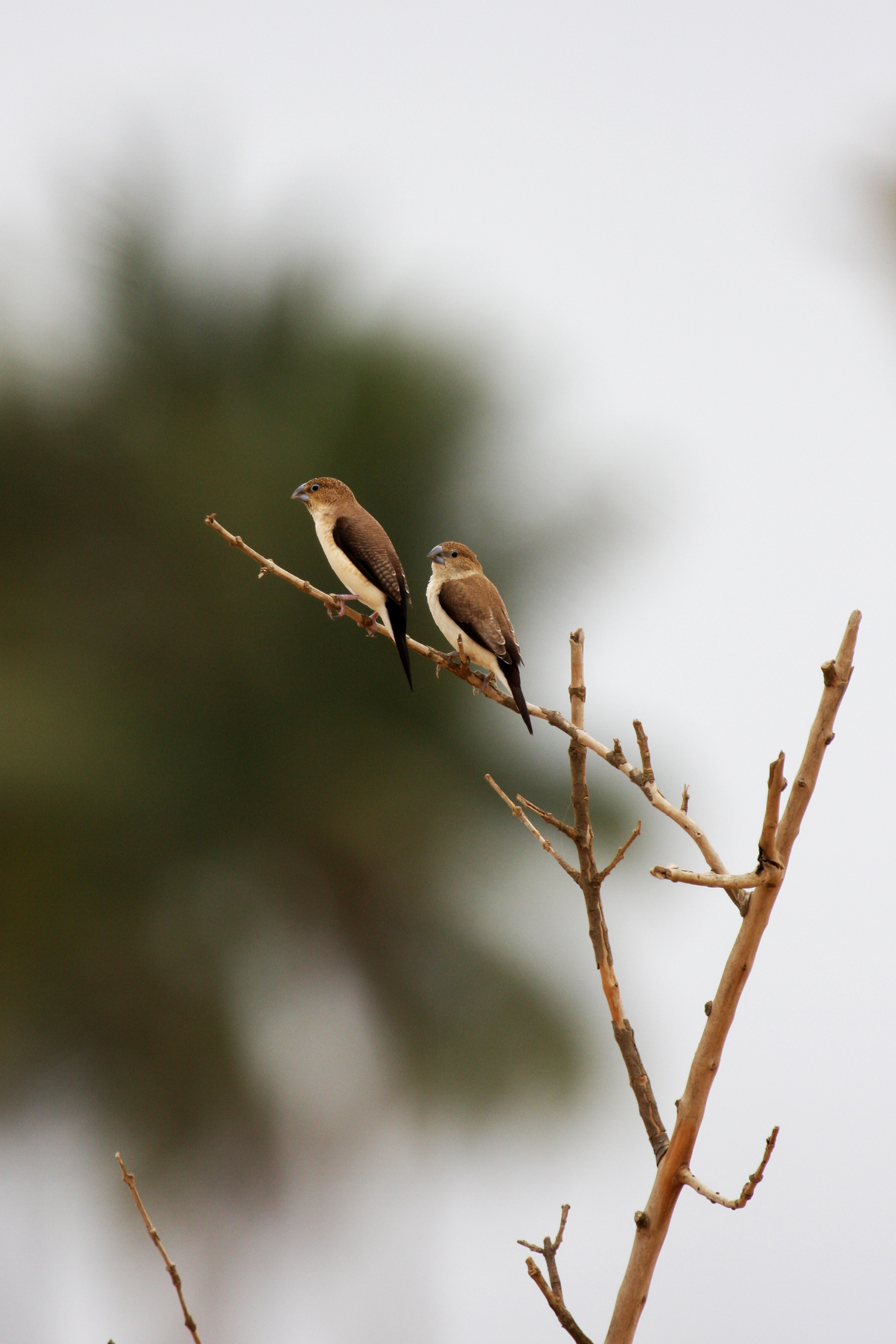 Photograph of African Silverbill taken from Salalah, Oman